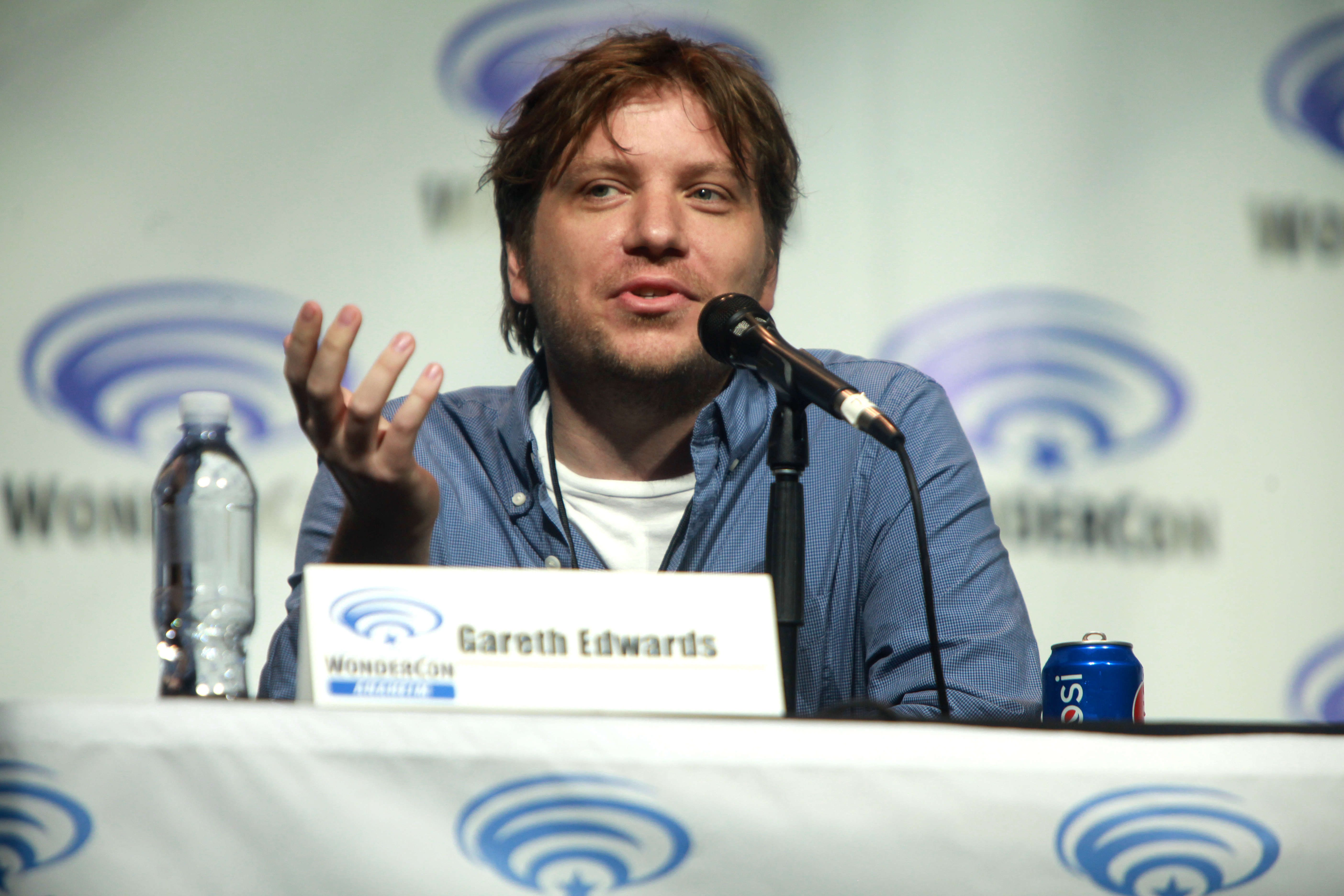 Gareth Edwards speaking at the 2014 WonderCon, for "Godzilla", at the Anaheim Convention Center in Anaheim, California.